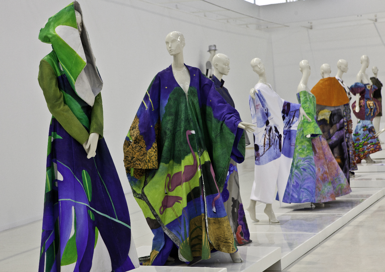 Fashion Art by Manuel Fernandez -Exhibition CEART